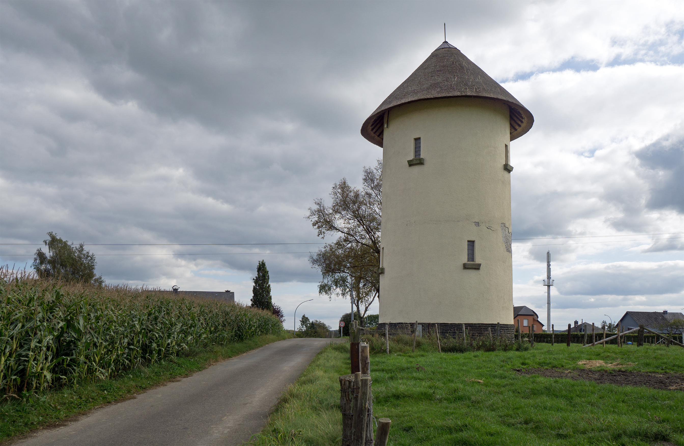 Water tower in Hamiville